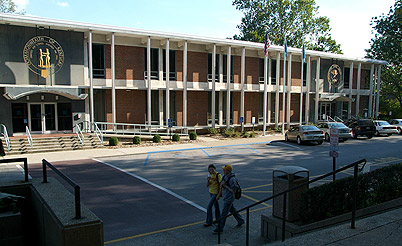 This is an image of Howell-McDowell Administration Building on the Morehead State University campus.